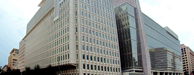 World bank